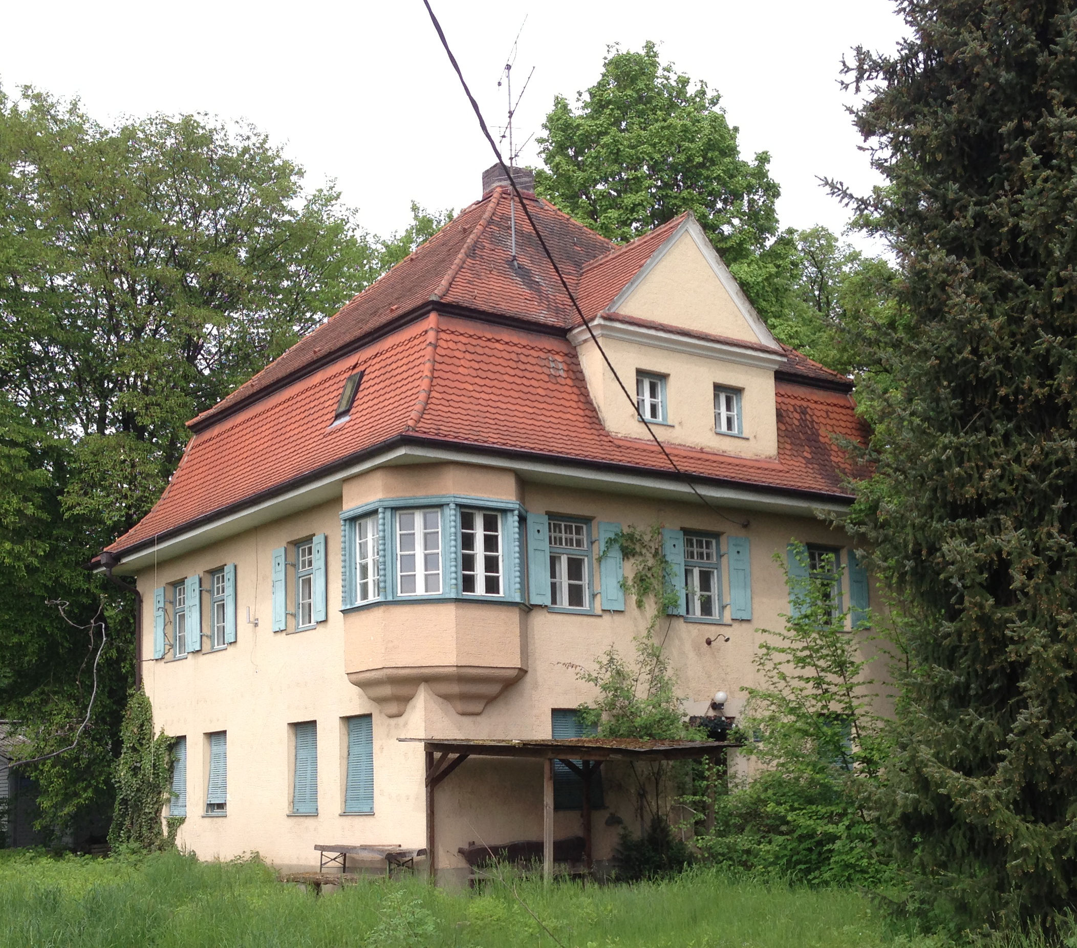 Schussenrieder Str. 3, München